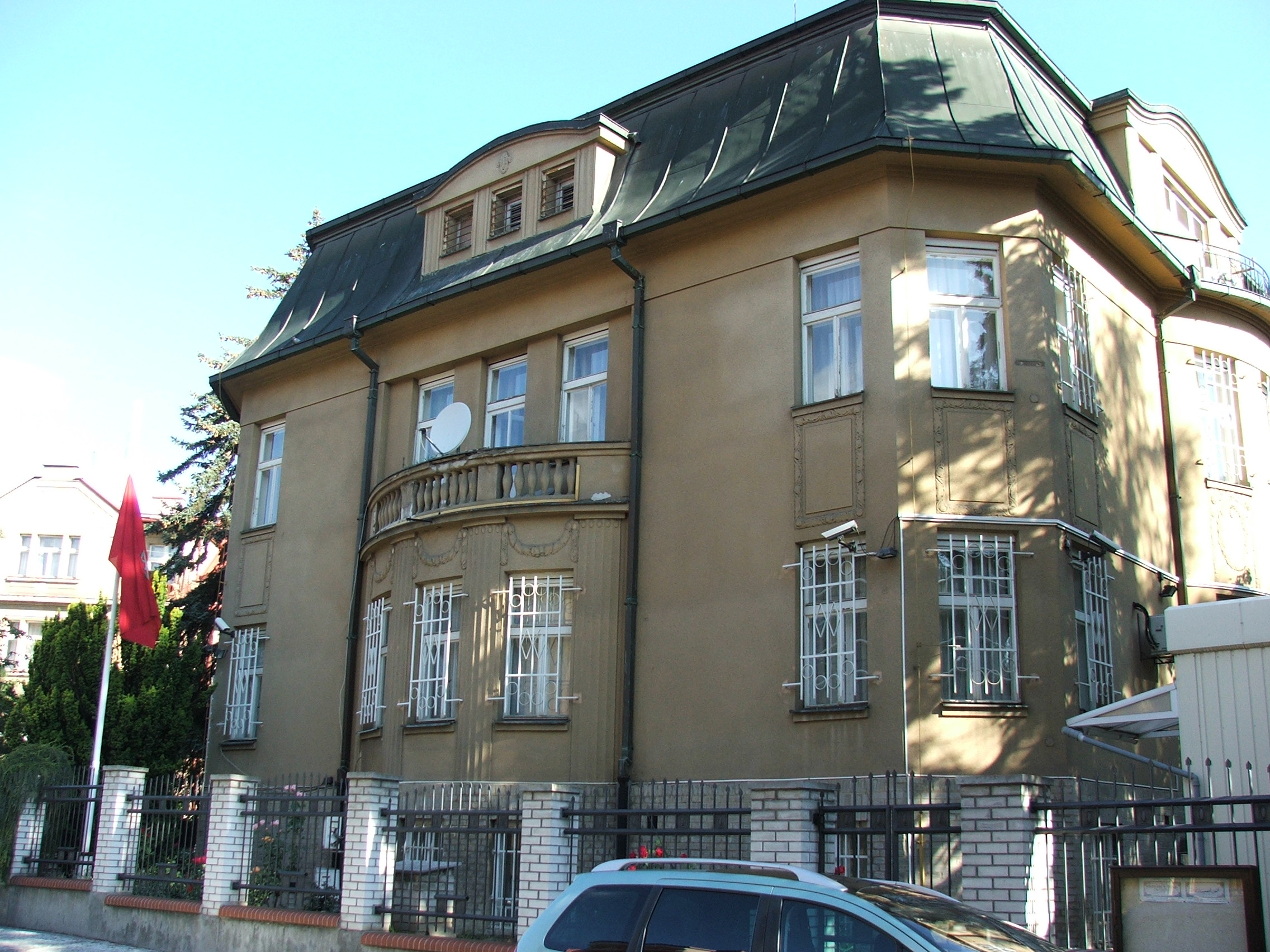 Embassy of Morocco in Prague-Hradčany, Mickiewiczova st., Czechia